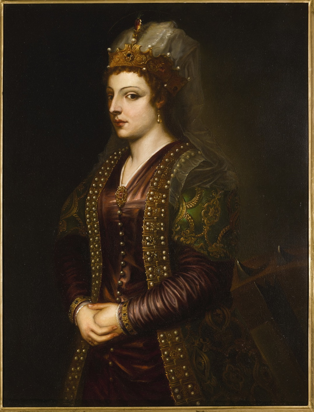 Officially "Roxelana, wife of Sultan Süleyman the Magnificent, Italy, 19th century". 100 by 75.5cm. 137 by 114cm. framed